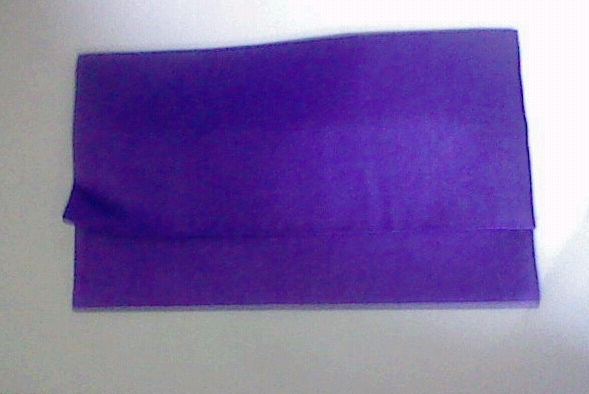 Silk wrapper